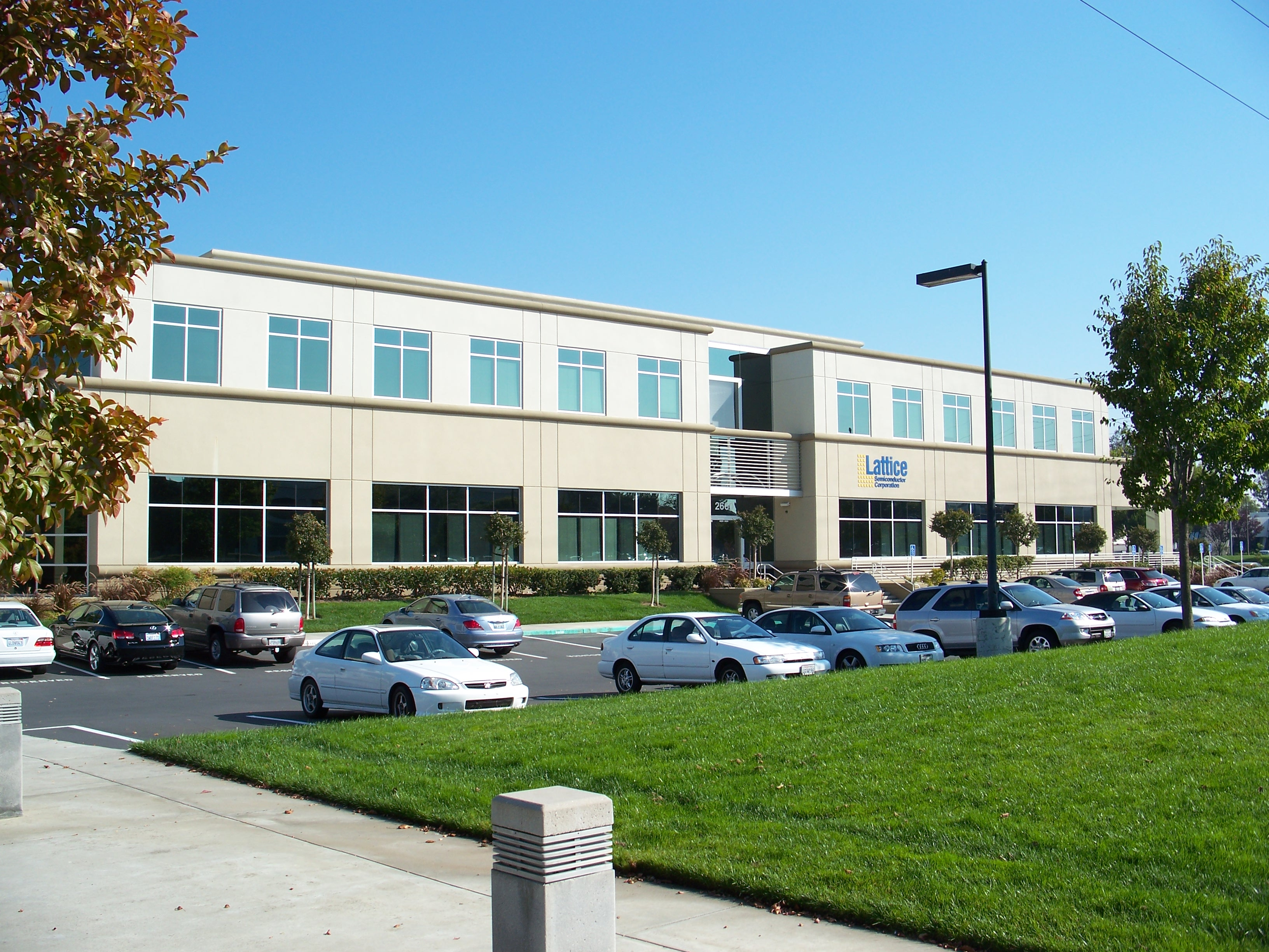 Lattice Semiconductor. 2660 Zanker Road. San Jose, California, USA